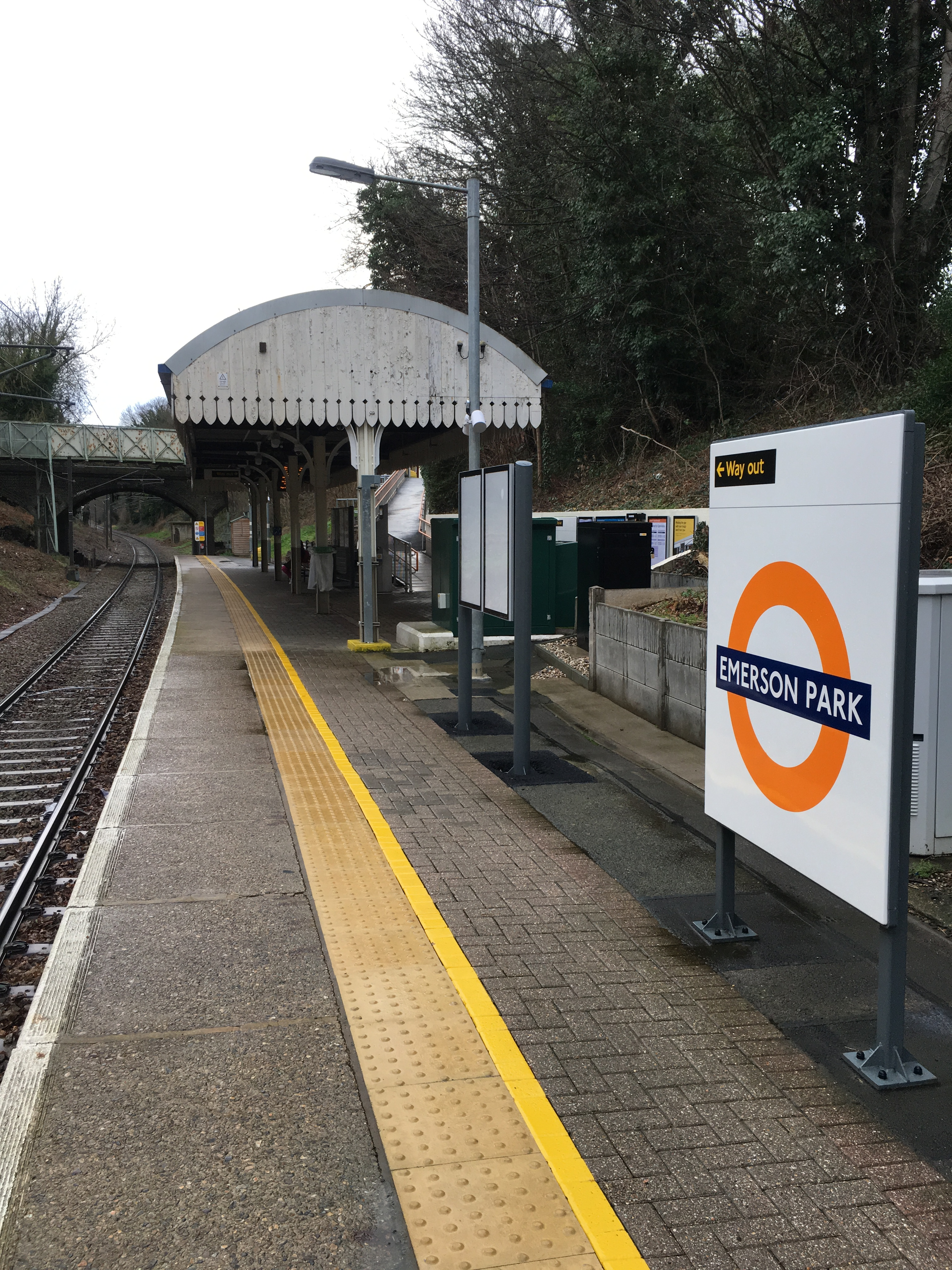 Emerson Park station, January 2018